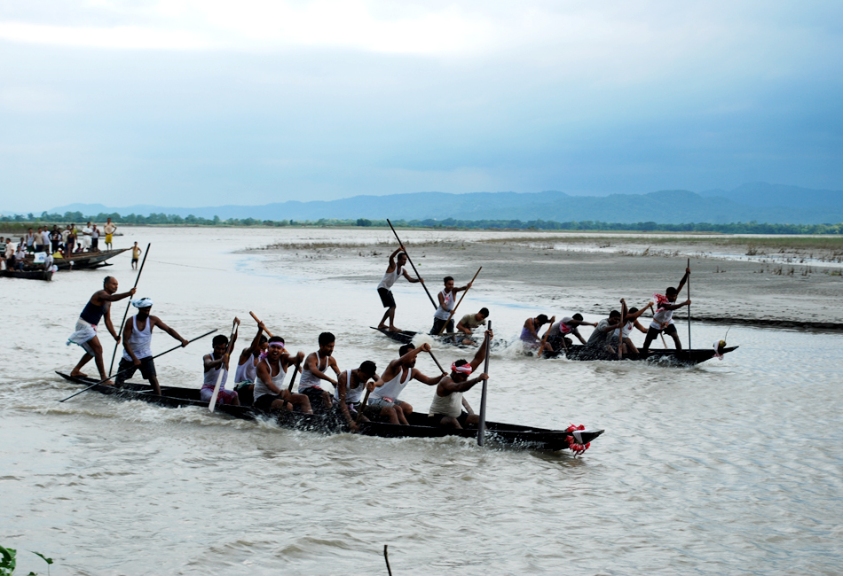 Naokhel(Boat Race/rowing) of Sualkuchi at Brahmaputra River.The rowing competition has been held every year regularly as a popular festival on the day of the death anniversary of Sri Sri Sankardev. অসমীয়া: ব্ৰহ্মপুত্ৰ নদীৰ বুকুত অসমৰ শুৱালকুছিত অনুষ্ঠিত নাওখেলৰ এক মনোৰম দৃশ্য। এই খেল শুৱালকুছিত মহাপুৰুষ শ্ৰী মন্ত শংকদেৱৰ মৃত্যুবাৰ্ষিকীৰ দিনাখন বাৰ্ষিকভাৱে অনুষ্ঠিত হৈ আহিছে।